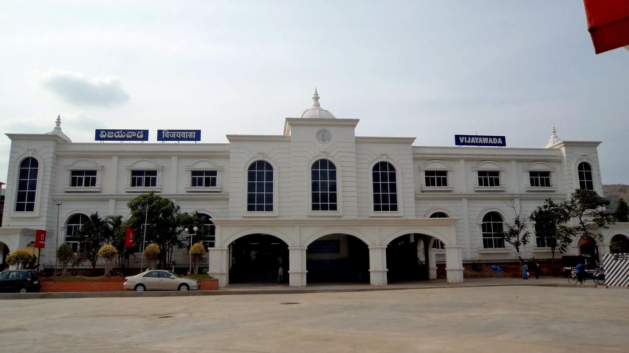 VijayawadaRailwayStation